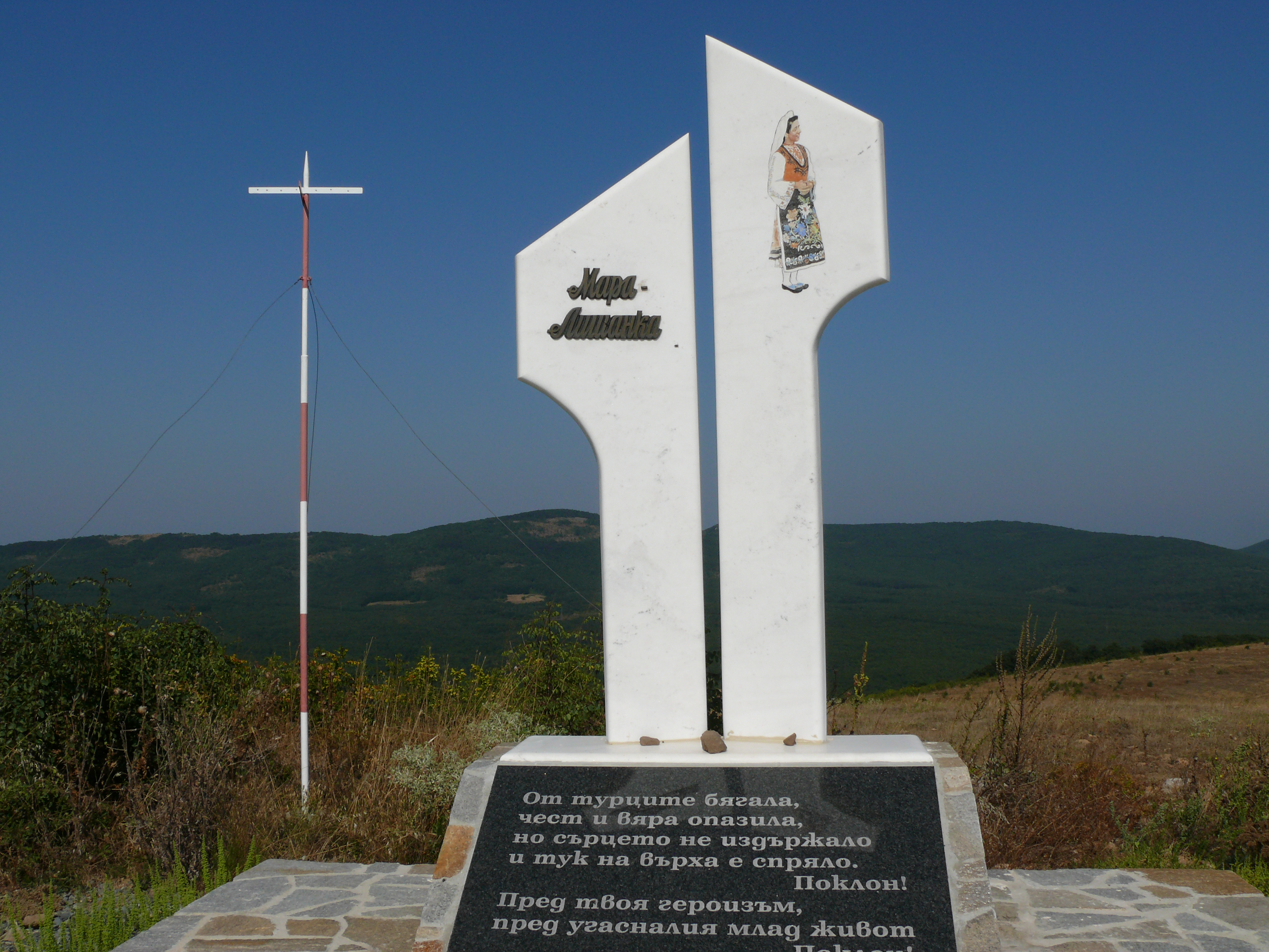 Mara Lishanka